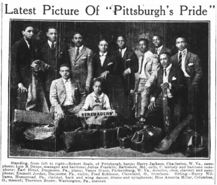 The Lois Deppe Serenaders. Standing, from left to right - Robert Seals, of Pittsburgh, banjo; Harry Jackson, Charleston, W. Va., saxophone; Lois B. Deppe, manager and baritone; Julius Franklin, Baltimore, Md., cello, C. melody and baritone saxophone; Earl Hints, Duquesne, Pa., piano; Vance Dixon, Parkersburg, W. Va., director, oboe, clarinet and saxophone; Emmett Jordan, Duquesne. Pa., violin; Fred Robinson. Cleveland, O., trombone. Sitting - Harry Williams, Homestead. Pa., clarinet, buck and wing dancer, drums and xylophones; Miss Annetta Miller, Columbus, O., mascot; Thornton Brown, Washington, Pa., coronet.